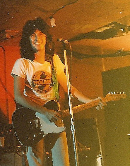 Bobby Bandiera playing with Holme at Art Stocks Royal Manor South in Wall, NJ in 1978. Photo by LHCollins.